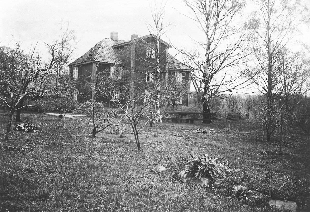 Farmhouse of Vøienvolden near Oslo in 1916, before it was restored in 1917.